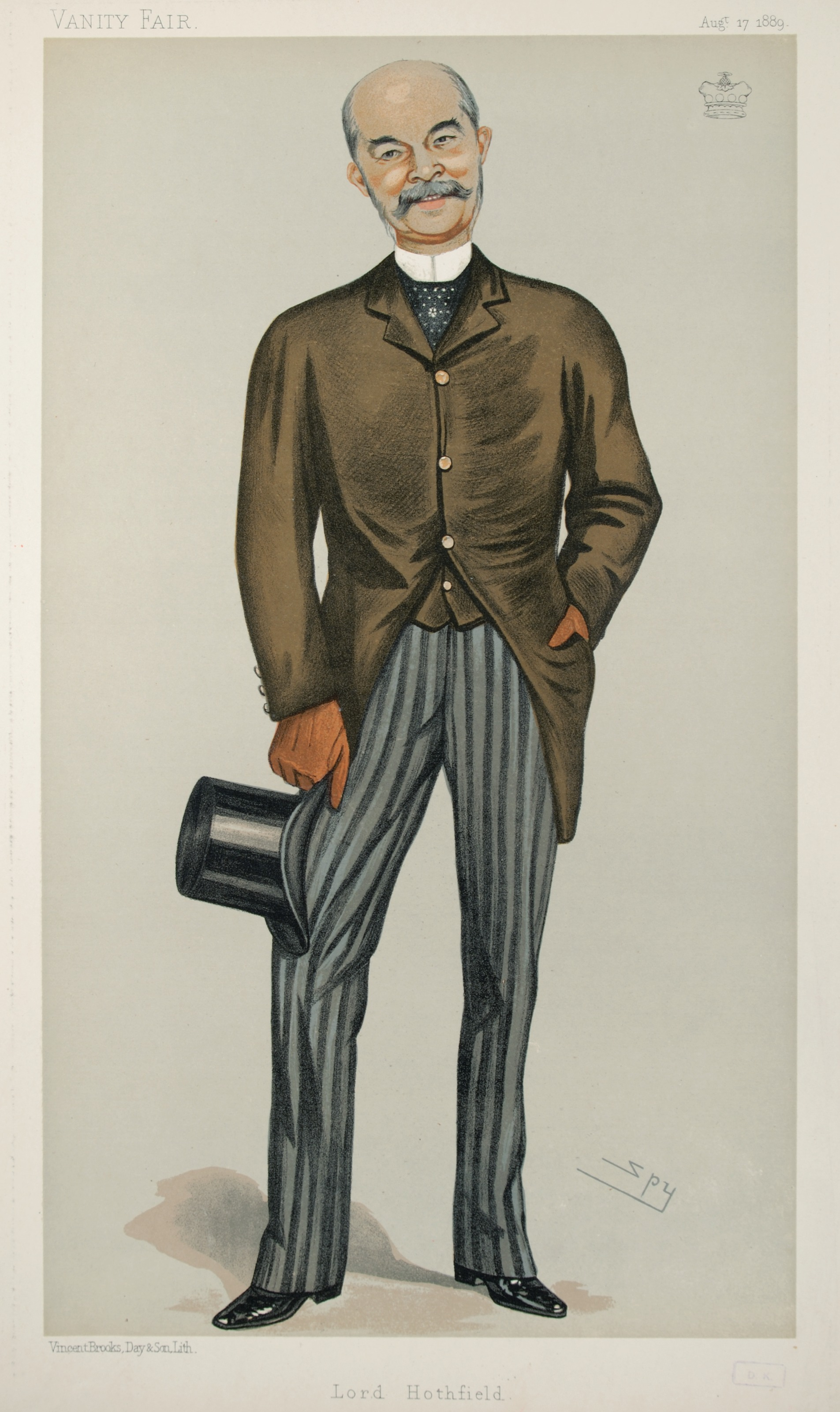 Men of the Day No. 436: Caricature of Henry Tufton, 1st Baron Hothfield. Caption read "Lord Hothfield".